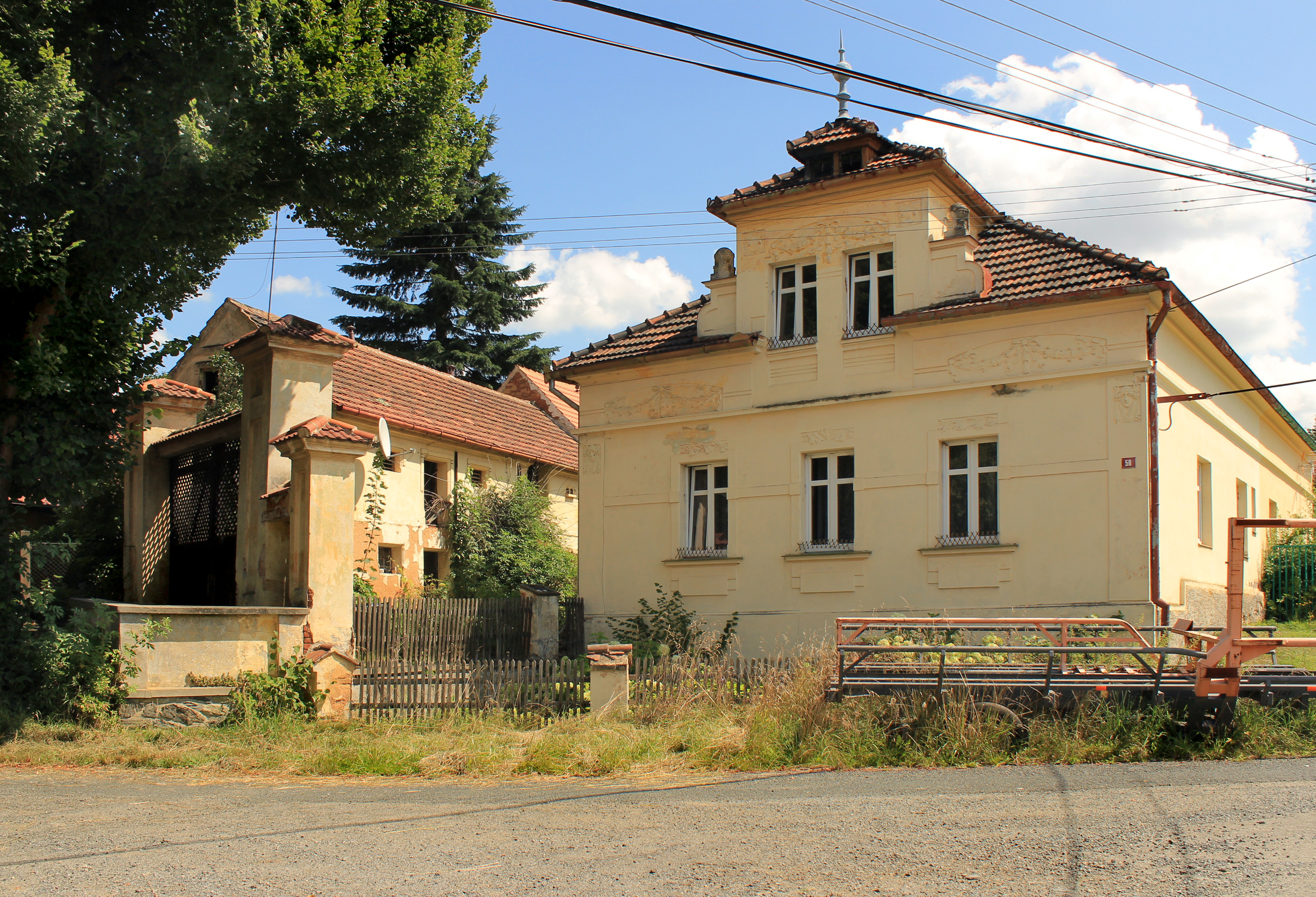 House No. 183 in Osvračín village, Czech Republic.